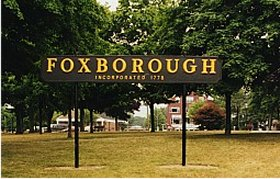 Sign in Foxborough. I took this picture myself. This sign was originally one of two placed at either end of the Common, located in the center of Town along Route 140. Removed as part of a Common restoration project, the Foxboro Jaycees, along with Town Historian Jack Authelet, refurbished and erected it along the East side of the Common where it currently serves not only as notification of arrival but also as a link to the Town's past.